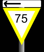 A reduce route speed on the diverging route to the left indication sign found on British railways. Image created by myself in Fireworks MX